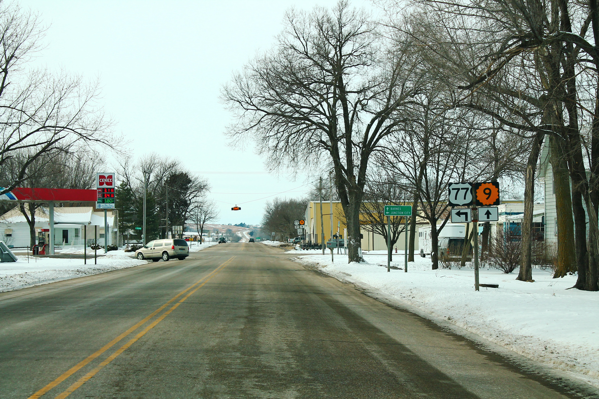 US77LeftKS9aheadSignsRoad-BlueRapids